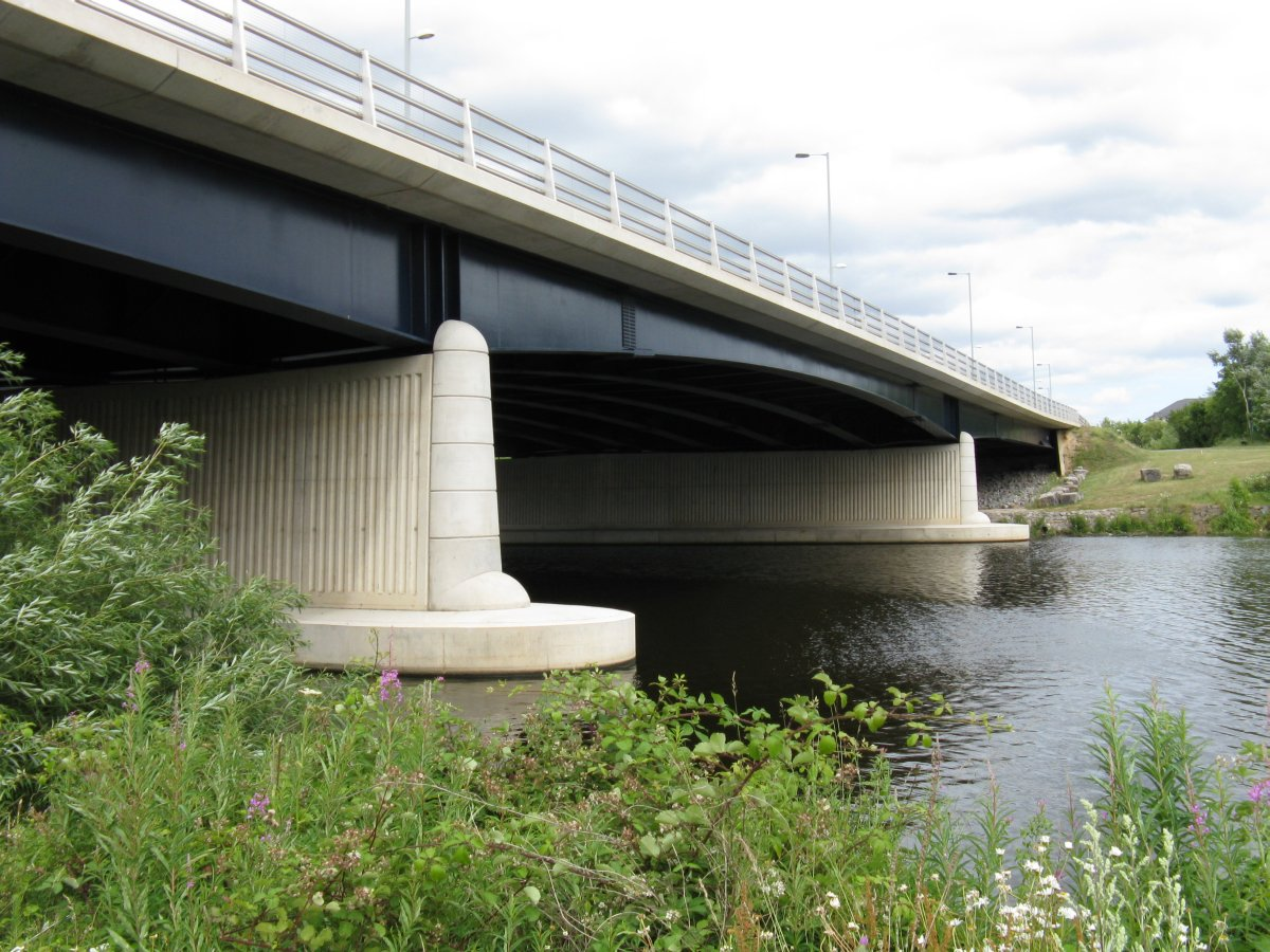 Surtess Bridge over the river Tees in Stockton-on-Tees from the western bank.